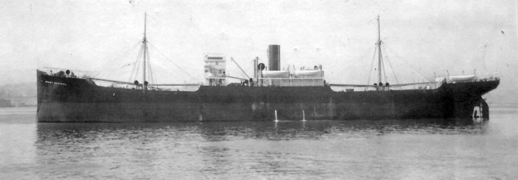 S.S. West Avenal (American Freighter, 1919). Probably photographed circa January 1919, when she was first completed by the Western Pipe & Steel Company, South San Francisco, California. This freighter was taken over by the Navy on 1 February 1919 and placed in commission as USS West Avenal (ID # 3871). She was returned to the U.S. Shipping Board on 5 April 1919.